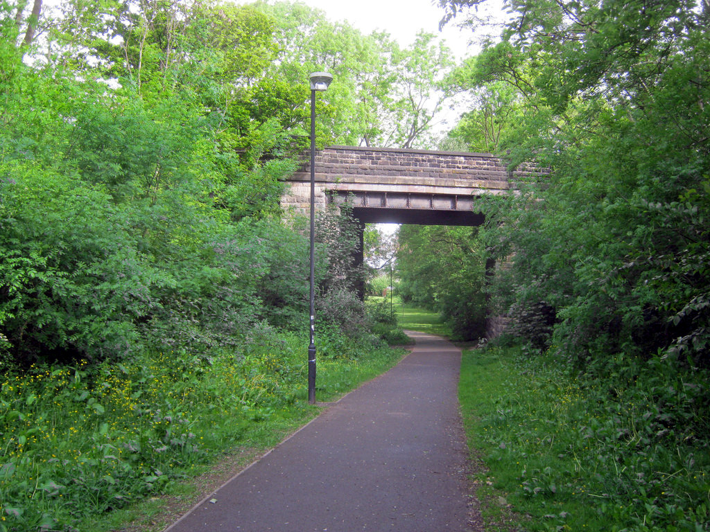 Ripley Greenway. Looking north along the cycleway, which uses the old Midland railway track. This site was the position of the old Ripley railway station. The bridge carries Nottingham Road.